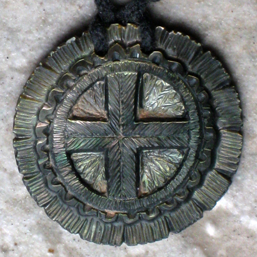 Miniature contemporary, cross-in-circle gorget by Dan Townsend (Muscogee Creek-Cherokee), Florida